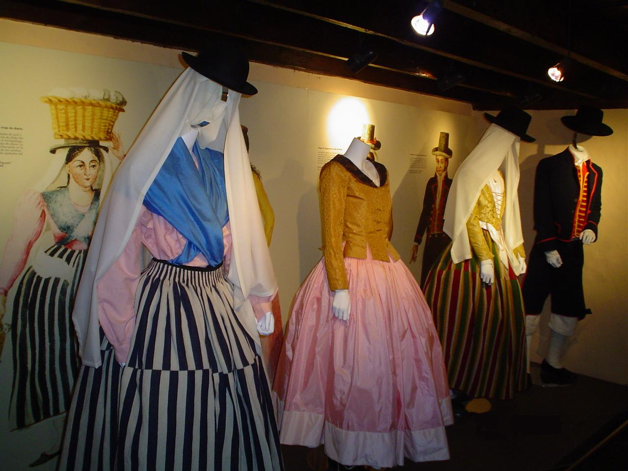 Typical historical clothing of the Canary Islands